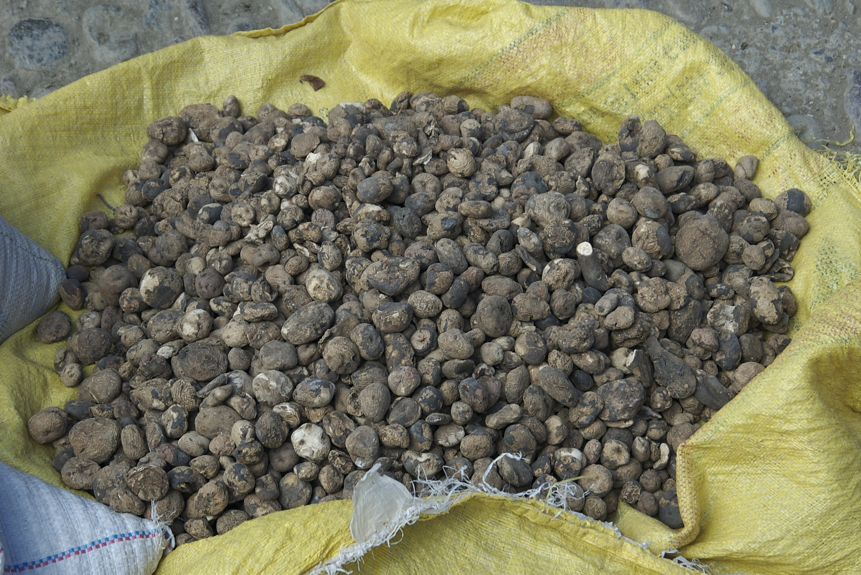 One of the most common methods of preserving potatoes in the high Andes is to freeze dry them outdoors. Solanum × juzepczukii hybrid or Solanum × curtilobum hybrid For sale at the small market in Paucartambo, Department of Cusco, Peru